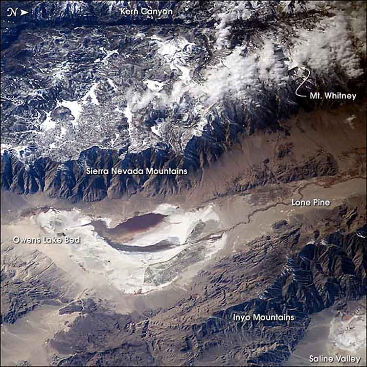 On February 6th 2003, astronauts aboard the International Space Station looked obliquely down at the steep eastern flank of California’s Sierra Nevada. Even from space the topography is impressive—the range drops nearly 11,000 feet from Mt. Whitney (under cloud, arrow), the highest mountain in the lower 48 states (14,494 ft), to the floor of Owens Valley (the elevation of the town of Lone Pine is 3,760 ft). Astronaut photograph ISS006-E-24783 was taken February 6, 2003, with an Electronic Still Camera equipped with 180 mm lens and is provided by the Earth Sciences and Image Analysis Laboratory at Johnson Space Center. The purpose of NASA's Earth Observatory is to provide a freely-accessible publication on the Internet where the public can obtain new satellite imagery and scientific information about our home planet. The focus is on Earth's climate and environmental change. In particular, we hope our site is useful to public media and educators. Any and all materials published on the Earth Observatory are freely available for re-publication or re-use, except where copyright is indicated. We ask that NASA's Earth Observatory be given credit for its original materials.